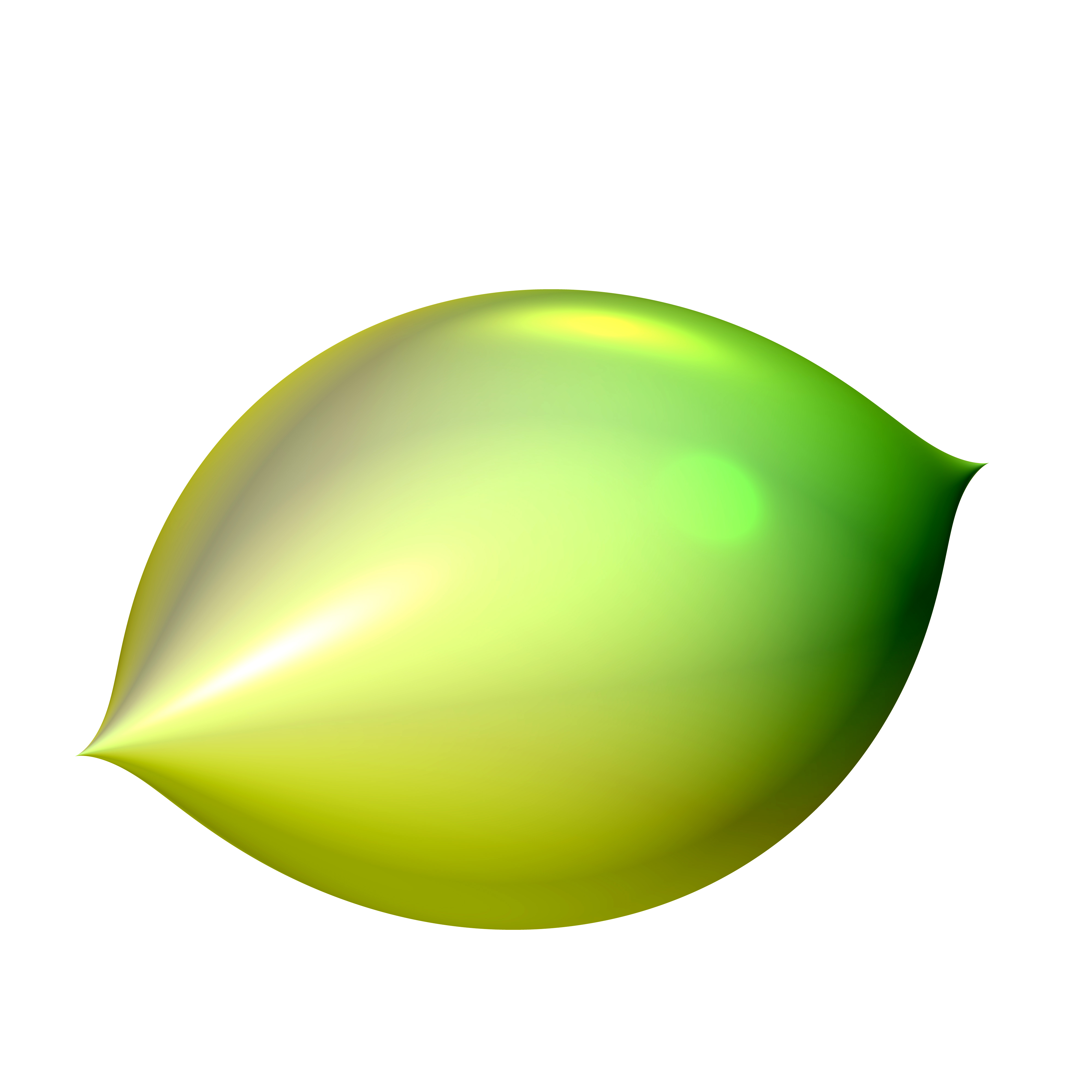 Title image of the interactive traveling exhibition IMAGINARY by the Mathematisches Forschungsinstitut Oberwolfach. It is an algebraic surface originally invented by Herwig Hauser. The formula that creates this picture is x^2+z^2+y^3(1-y)^3=0.